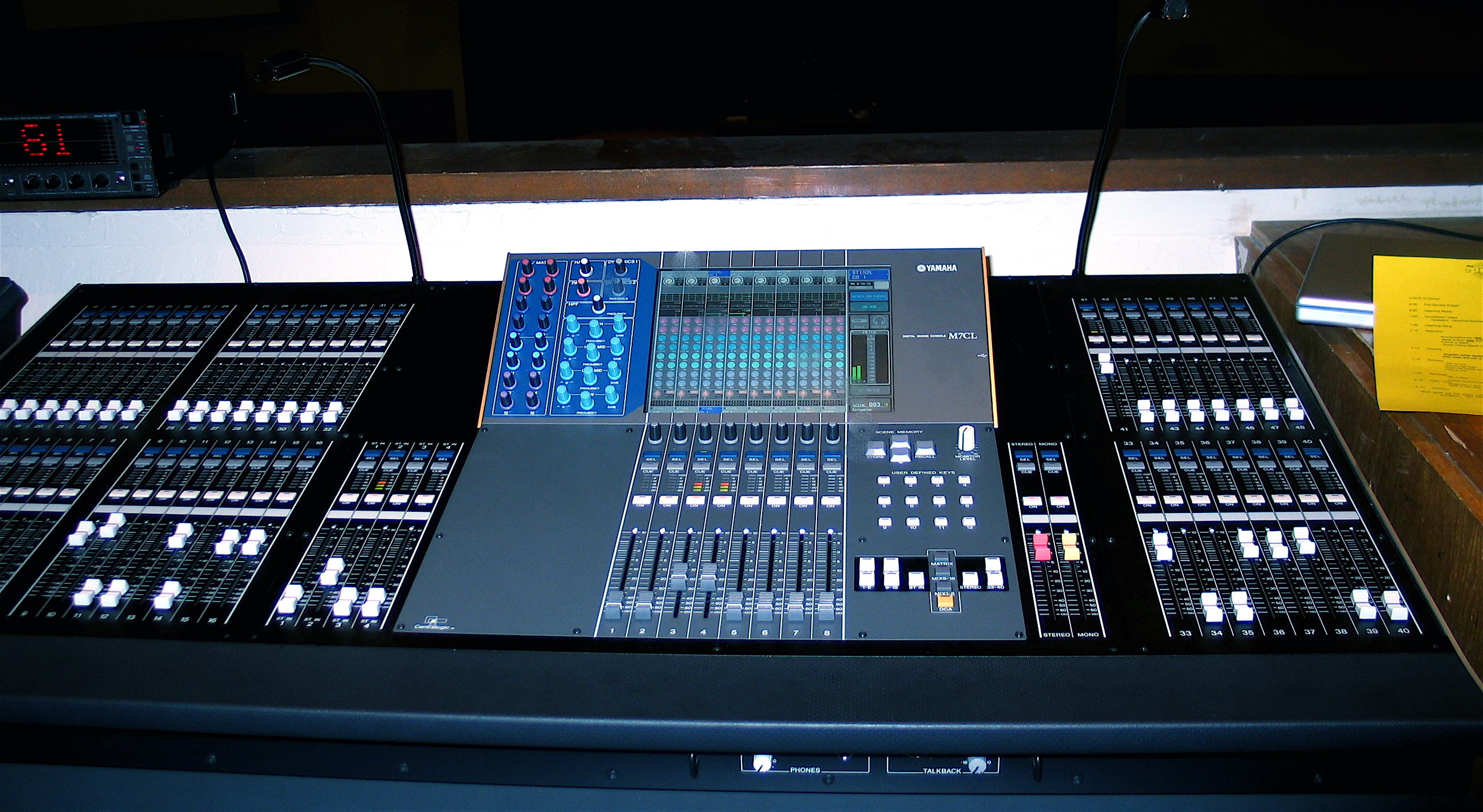 Photo Taken By Myself On January 10th 2007. Trent is Cool